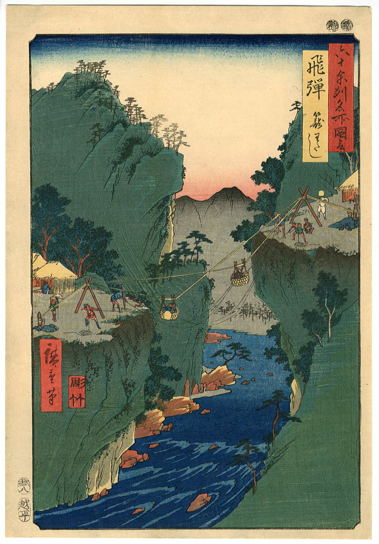 Hida Kagowatashi of the Famous Scenes of the Sixty States.